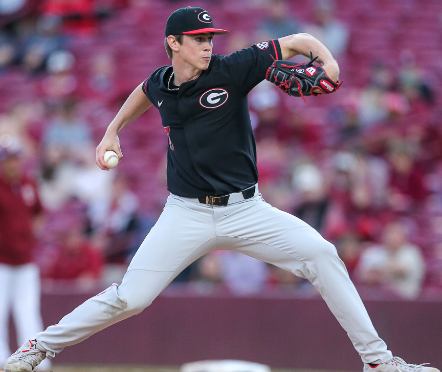 Photo by Chris Gillespie